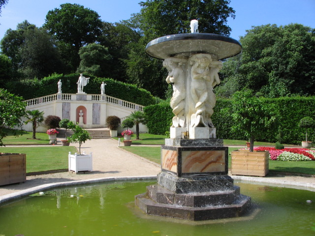 Fountain, Mount Edgcumbe Country Park The fountain is in the Formal Gardens of Mount Edgcumbe.